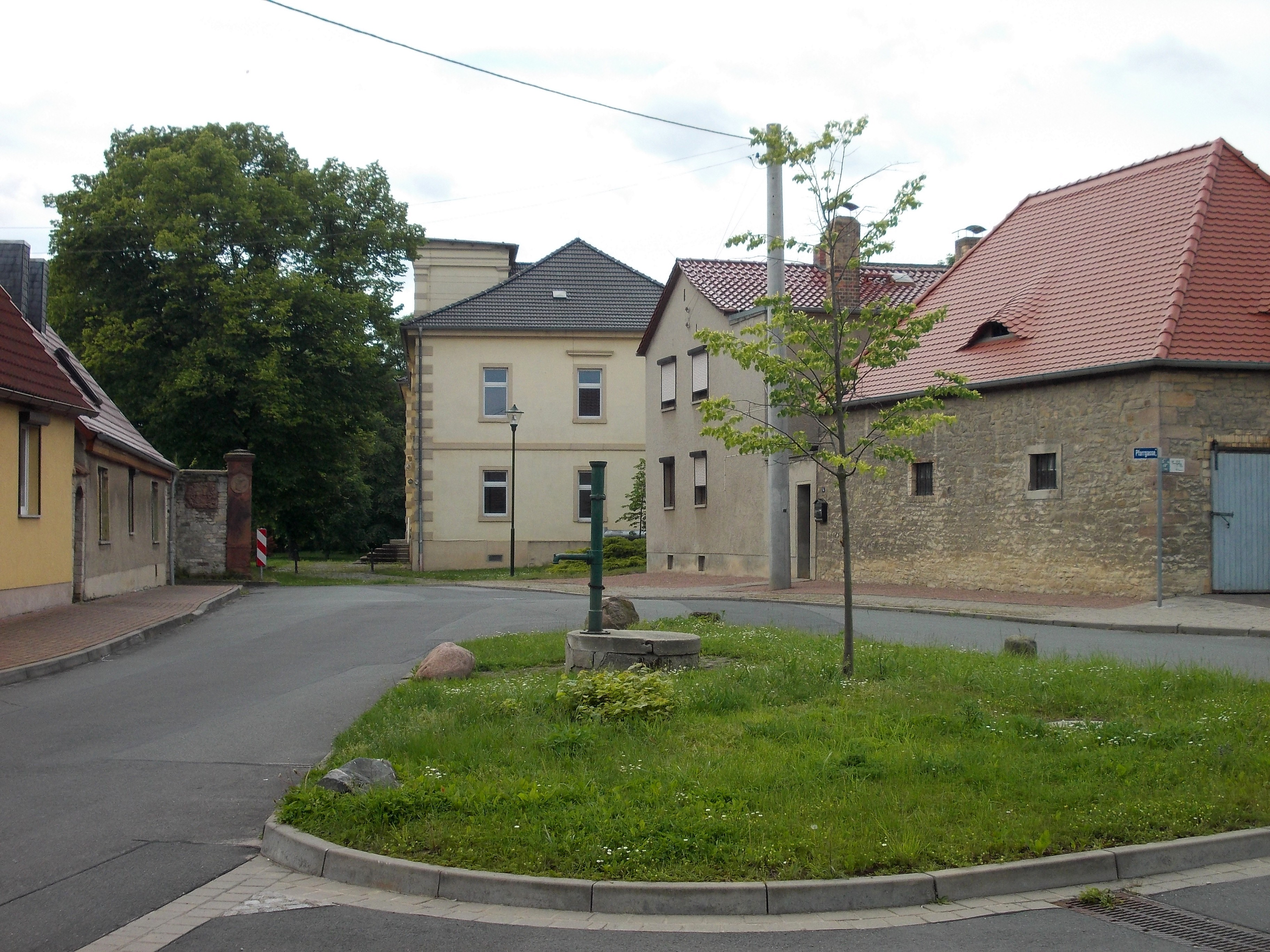 Pump in Obhausen (district: Saalekreis, Saxony-Anhalt) near the manor house